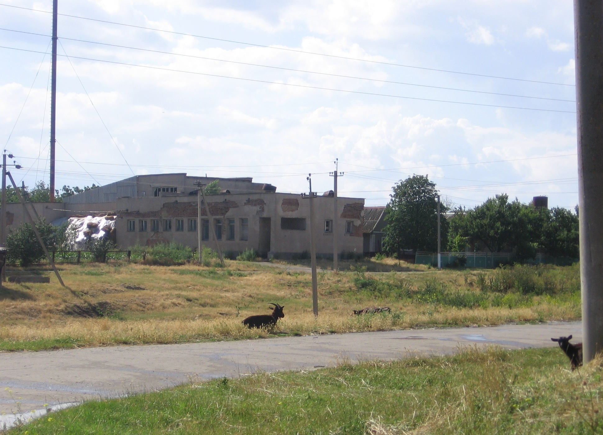 In the village of Kamyanka, Izmail Raion